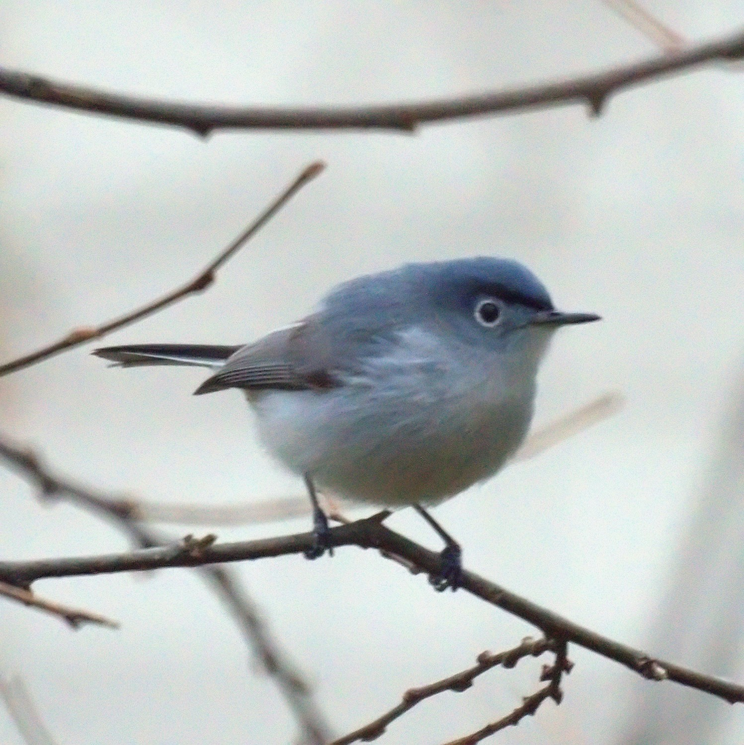 Polioptila caerulea ; Blue-gray Gnatcatcher